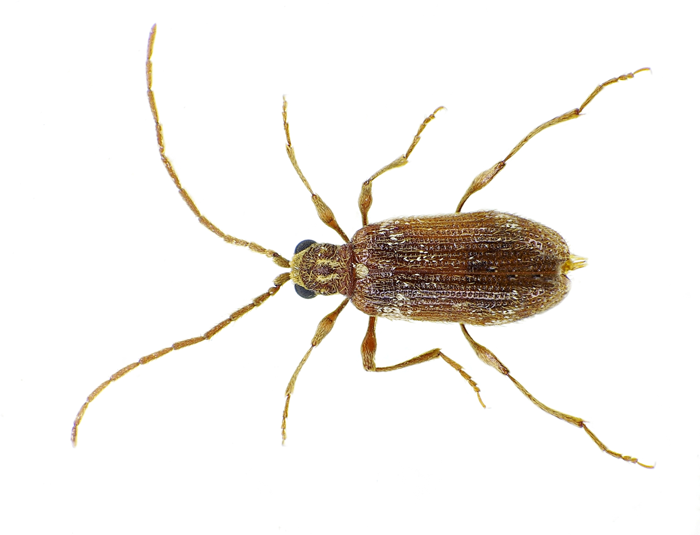 Ptinus fur, male, from Southern Germany, caught 2009-09-21 within the house